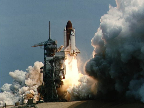 Space Shuttle Challenger launches on STS-51B